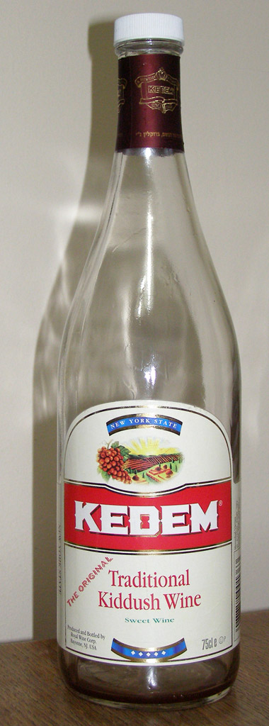 Photograph taken by me of a bottle of Kedem "Traditional Kiddush Wine" bought in England at a branch of Tesco supermarket. Sorry the bottle is empty...